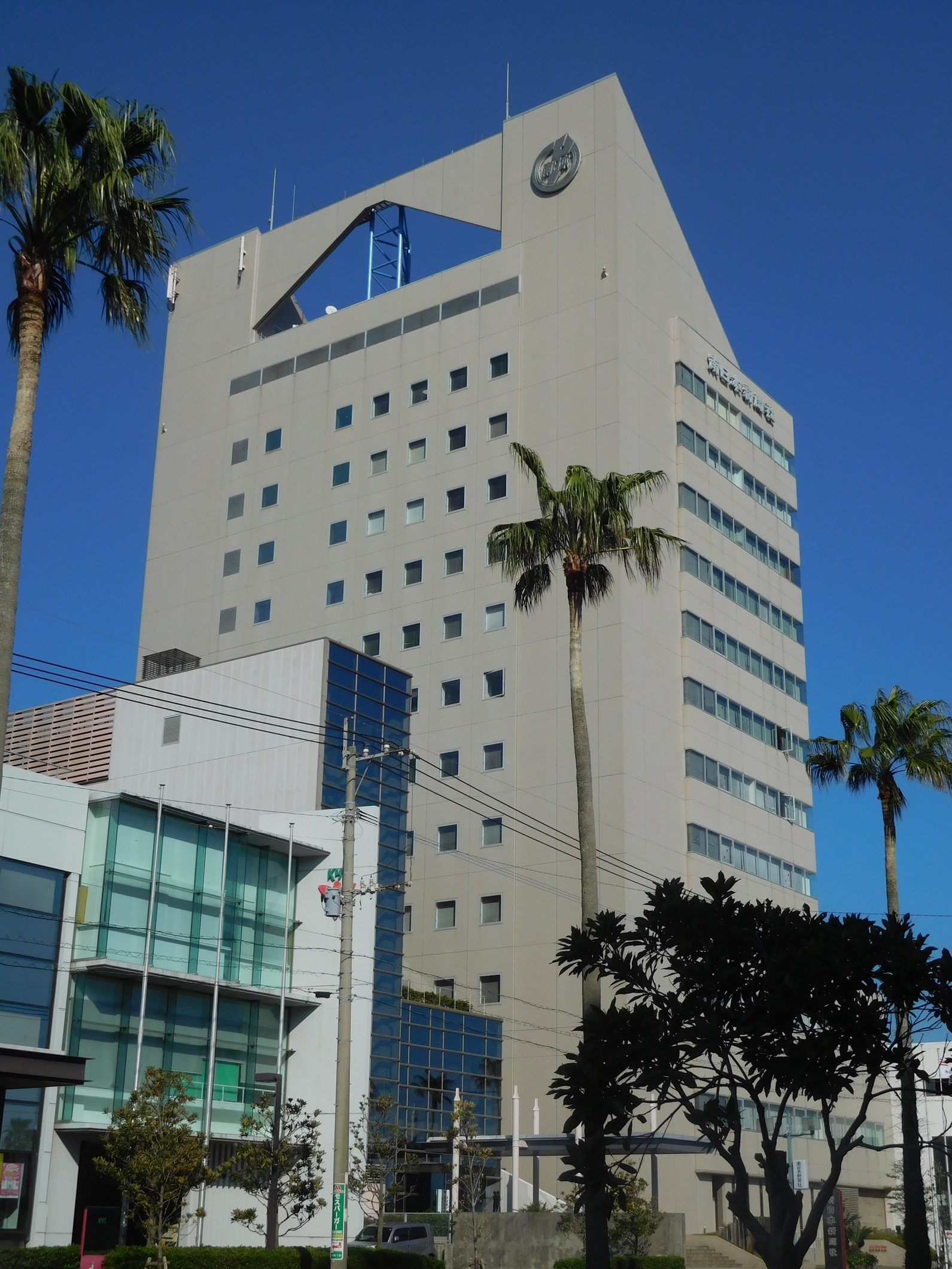 Minami-Nippon Shimbun - Main Office (Yojiro, Kagoshima City, Japan)